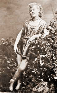 Mlle. Clary, the original Sparkion in Thespis, 1871